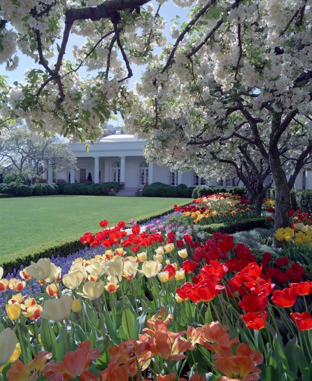 The White House Rose Garden